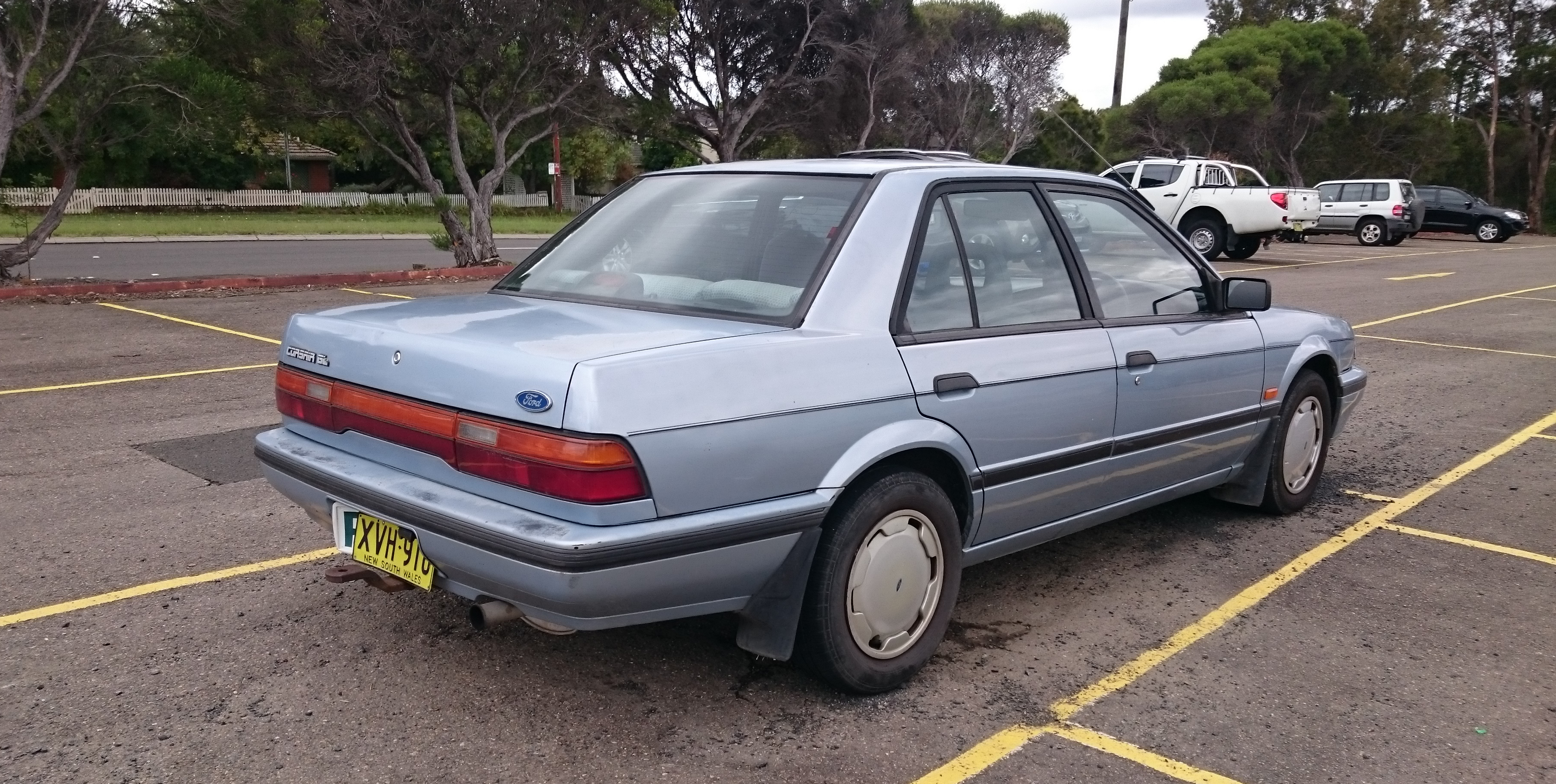 The 'modern' Ford Corsair (not to be confused with the 1960s model grom Britain) was an oddity of the Australian market available between 1989 and 1992, either in sedan or hatchback models and in either base GL spec or upscale Ghia trim. These were just rebadged versions of the Nissan Pintara/Bluebird (U12 generation) created under the infamous 'Button plan'. It was intended that these would replace the imported, Mazda derived Telstar as Fords midsize offering in Australia and in fact both Telstar and Corsair were sold side by side over the same time period (the Telstar was only offered in top spec TX5 model). However Nissan closed it's Australian manufacturing plant which was producing the Pintara and Corsair in '92, ending the relatively short model life of the Corsair.